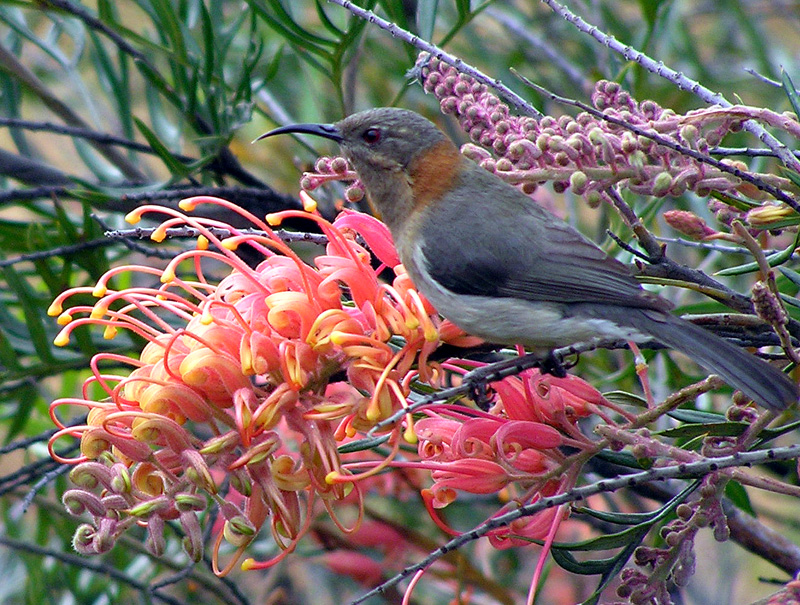 Acanthorhynchus superciliosus, Western spinebill, Quedjinup, Western Australia.